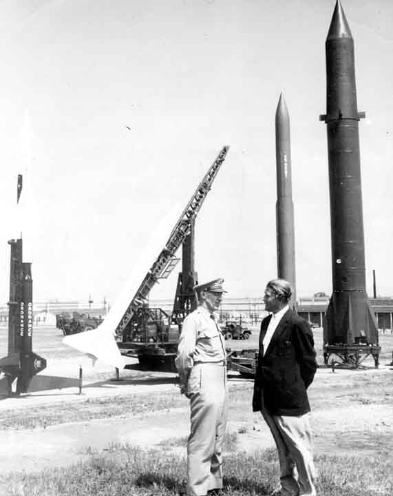 U.S. Army Major Genaral Holger N. Toftoy and von Braun talking in front of a missiles.